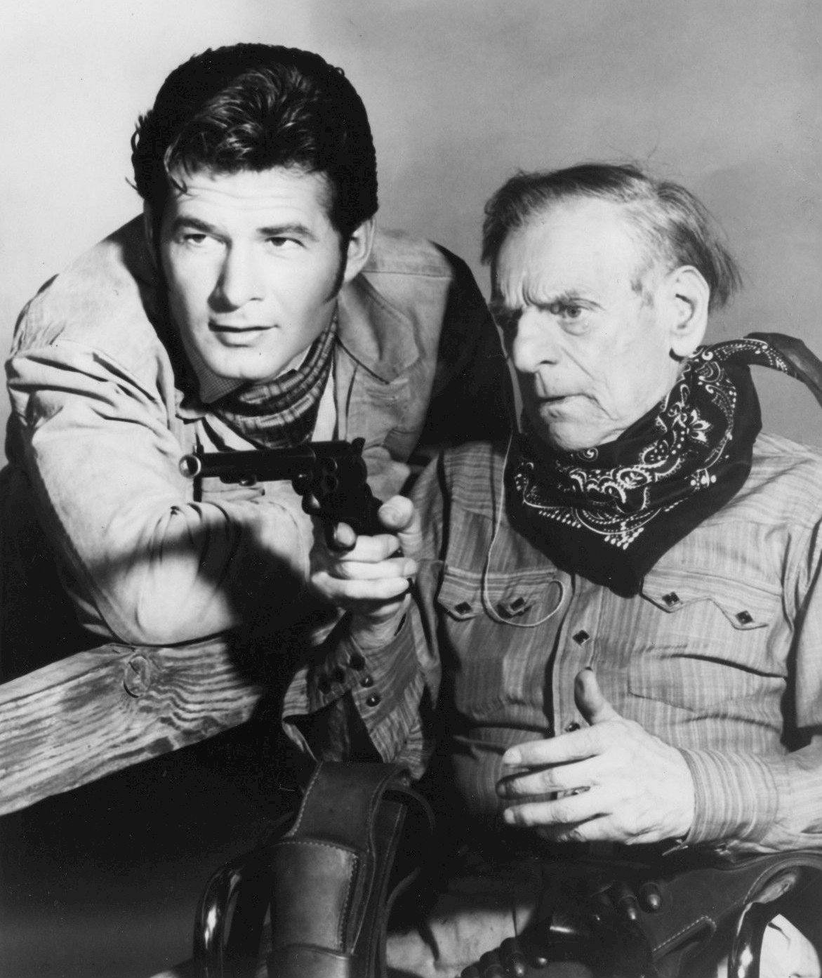 Photo of Bronco Billy Anderson and Gary Clarke from Hollywood and the Stars. The show, "They Went That-A-Way", focused on Hollywood's Western films. Anderson was featured in a segment of the show; Gary Clarke was working in The Virginian at the time.